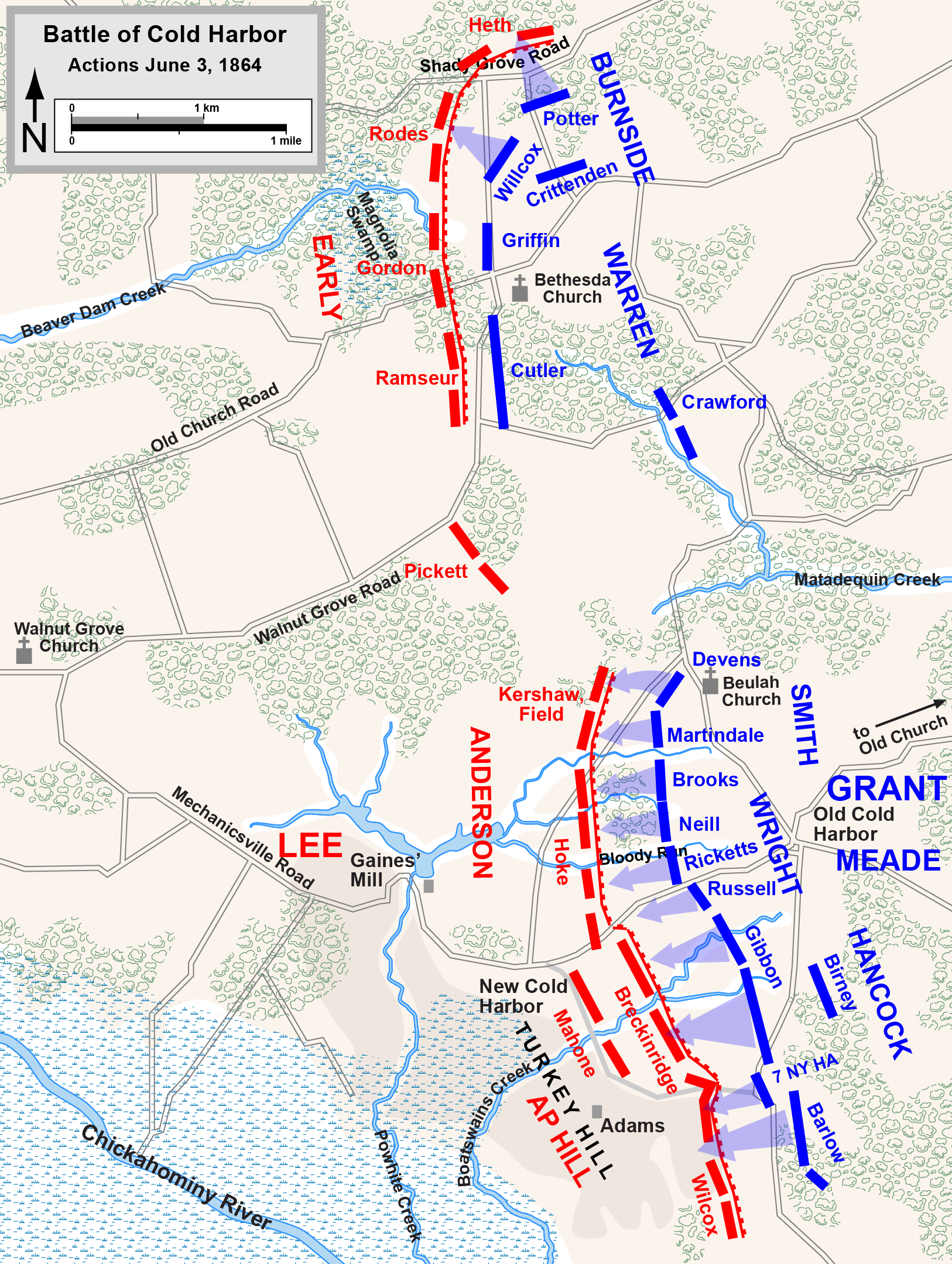 Map of the Battle of Cold Harbor of the American Civil War, drawn in Adobe Illustrator CS5 by Hal Jespersen. Graphic source file is available at